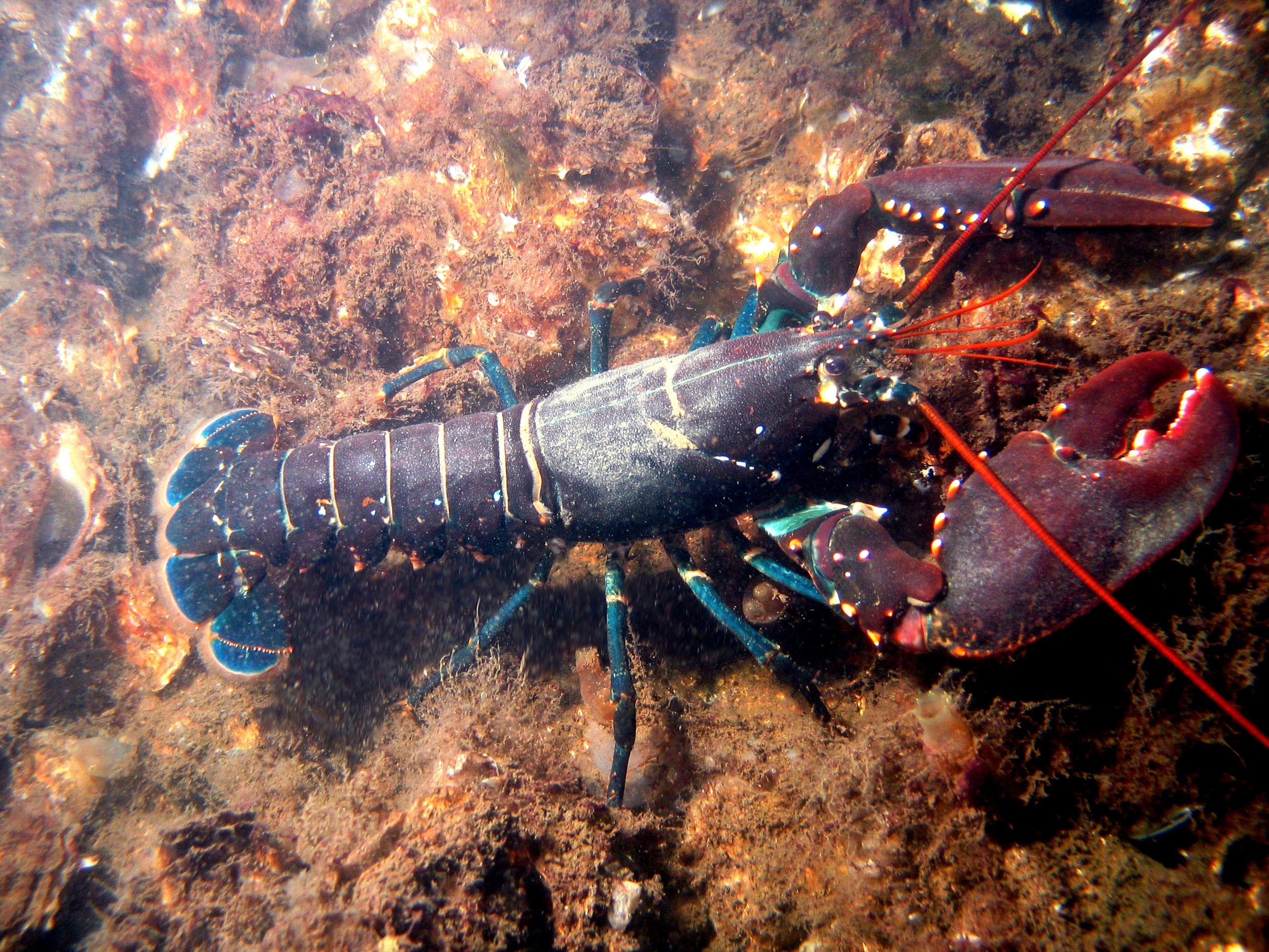 European lobster (Hommarus gammarus)